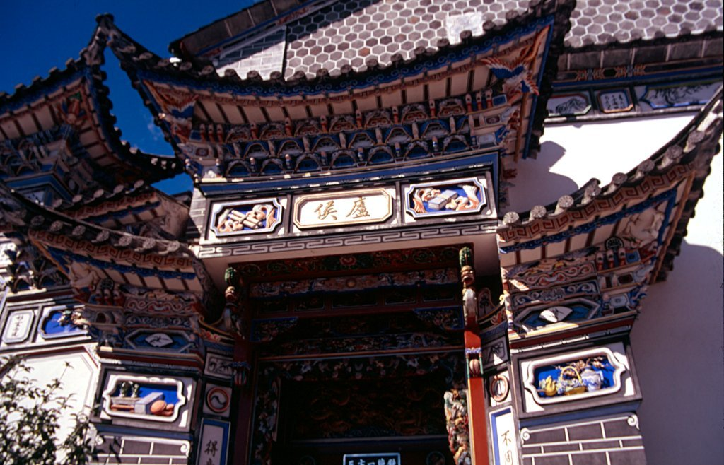 Typical Bai house in Erhai lake, Yunnan (China).